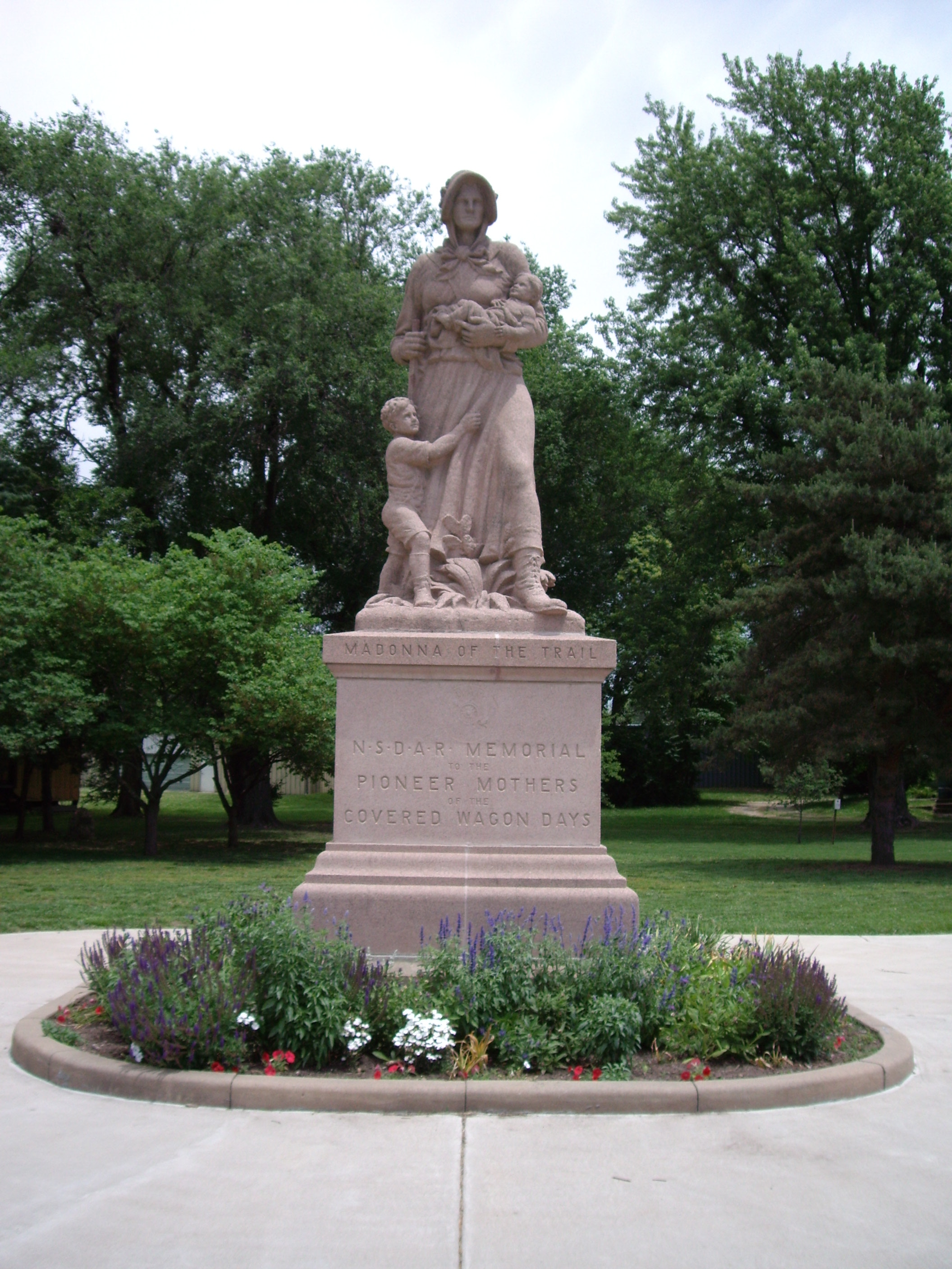 This photo was taken on May 26, 2006. -Joe Carmel